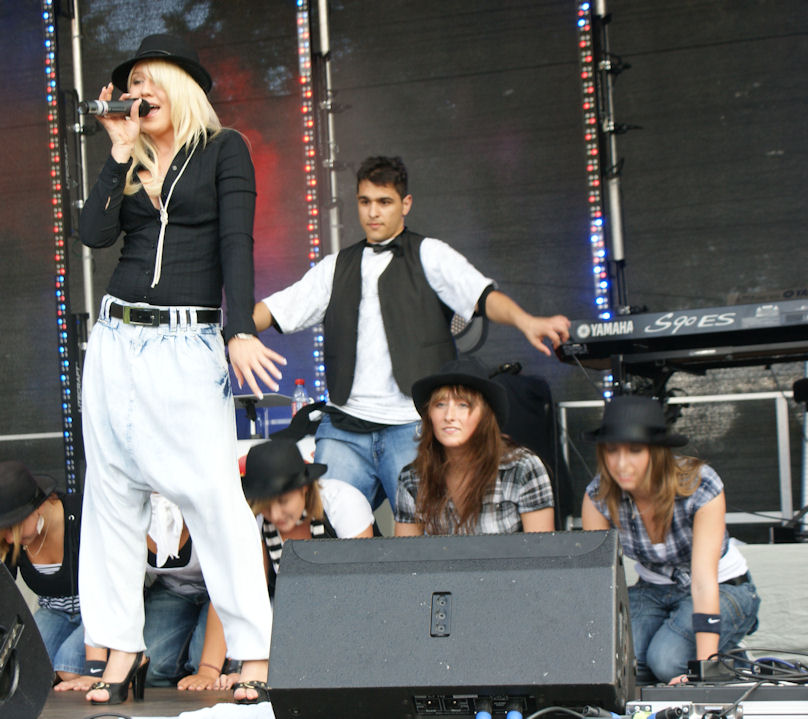 Lisa Bund